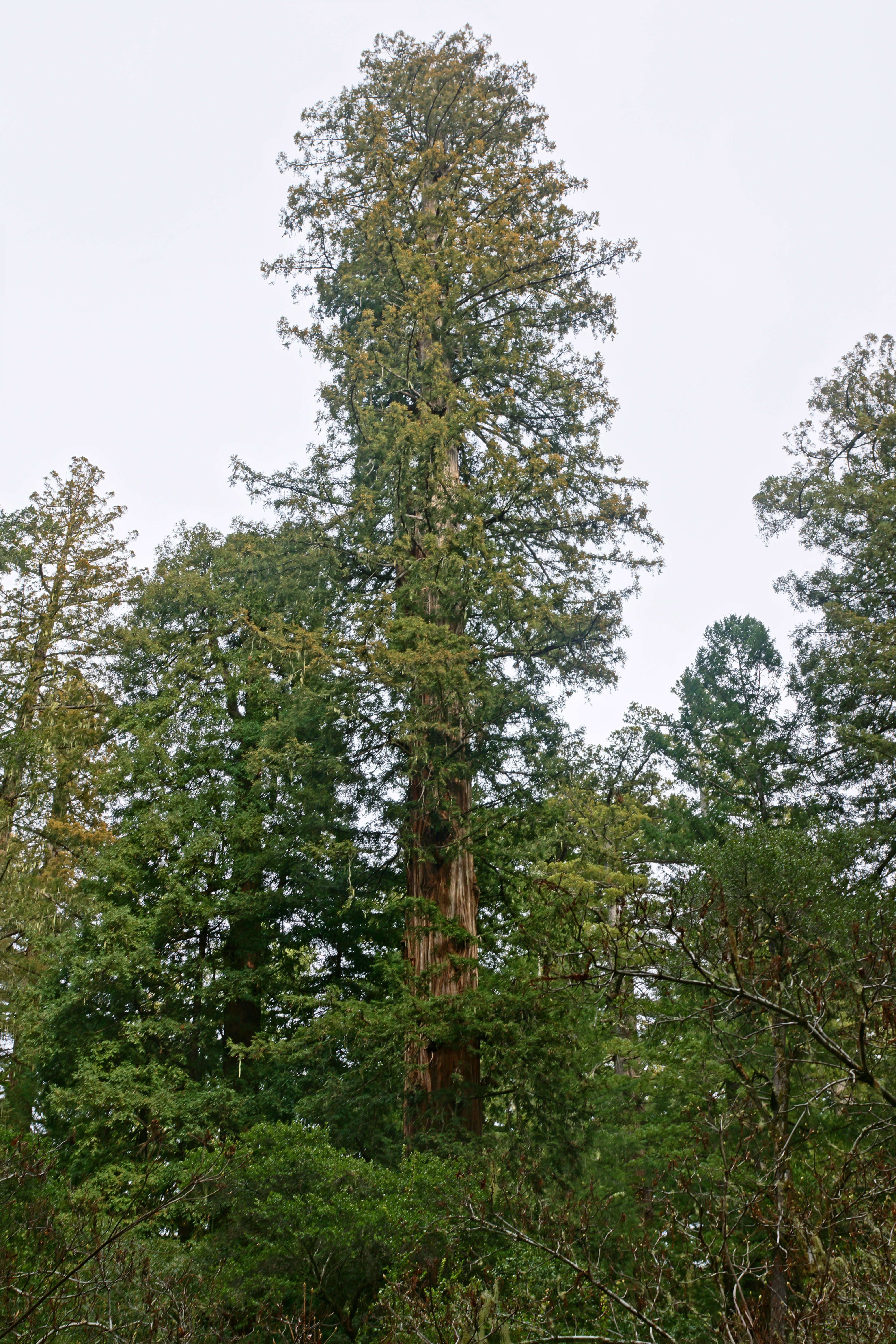 Coast Redwood Sequoia sempervirens, Capitola, Big Basin Redwoods State Park, California